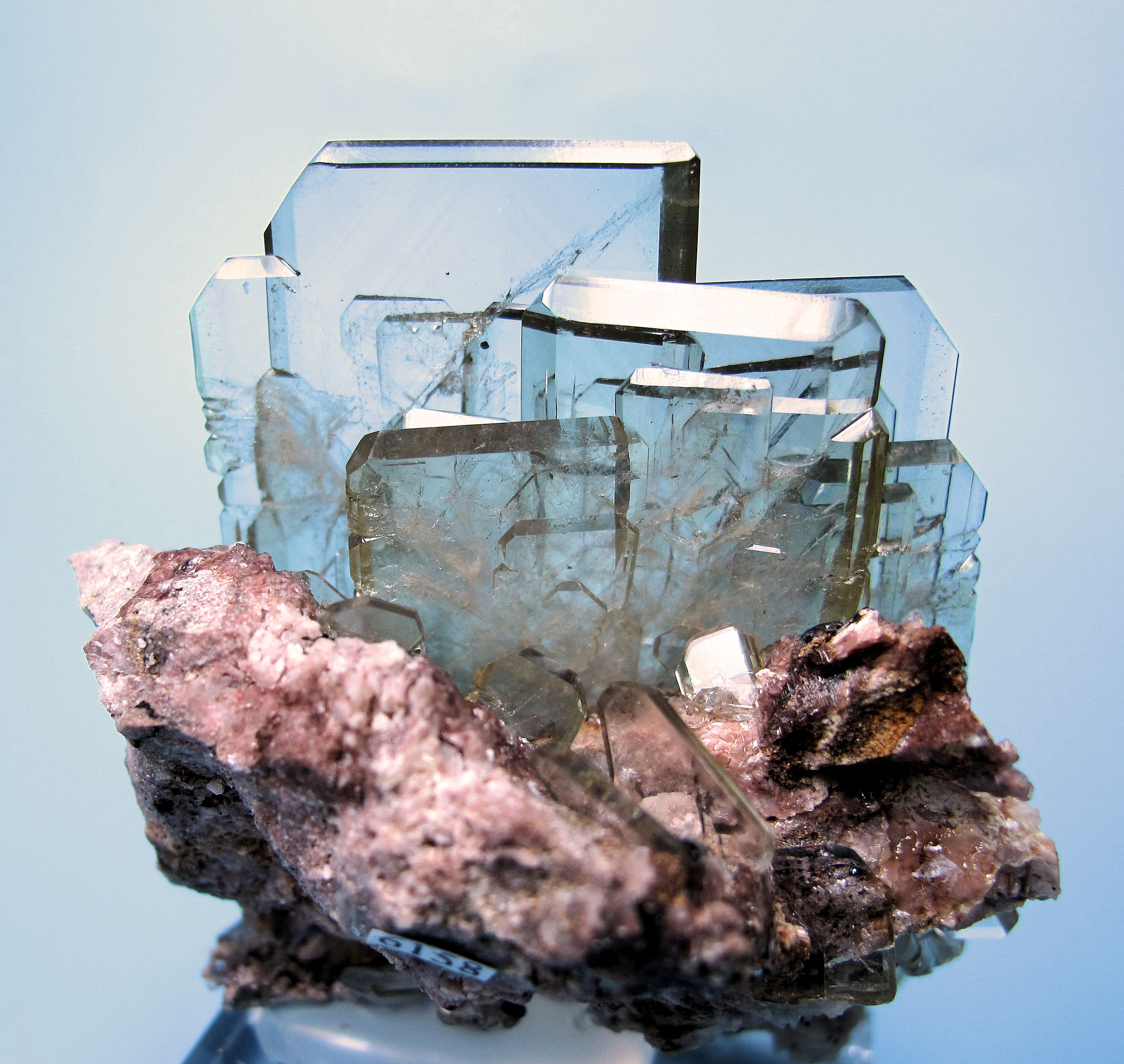 Baryte Locality: Cerro Warihuyn (Huarihuyn), Miraflores, Huamalies Province, Huanuco Department, Peru (Locality at ) Cluster of transparent almost colorless tabular barite crystals on matrix. Overall size: 56 mm x 53 mm. Major crystal: 22 mm wide, 3 mm thick. Weight: 74 g. No damage.